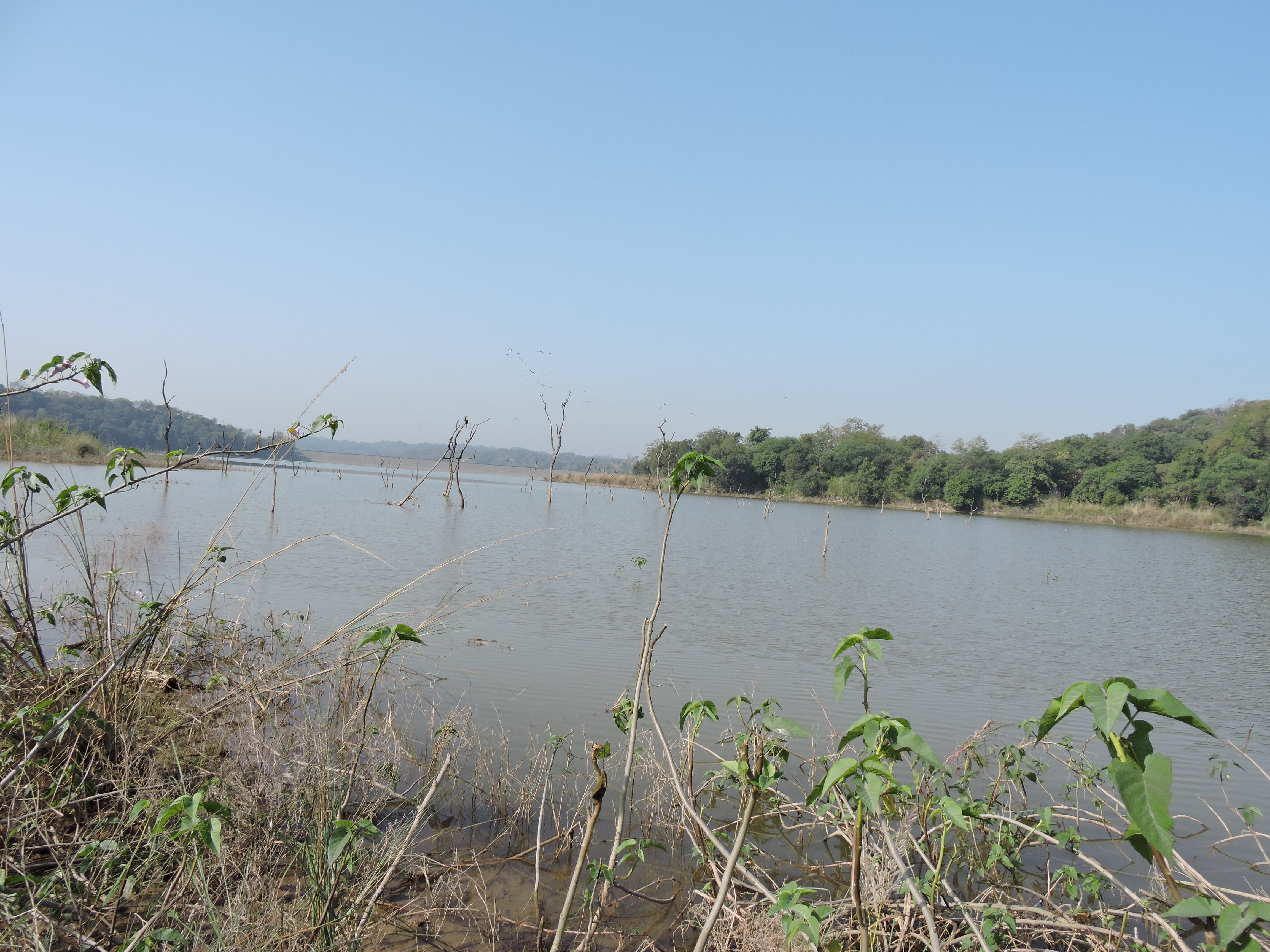 Sisvan Dam, district Mohali, Punjab, India